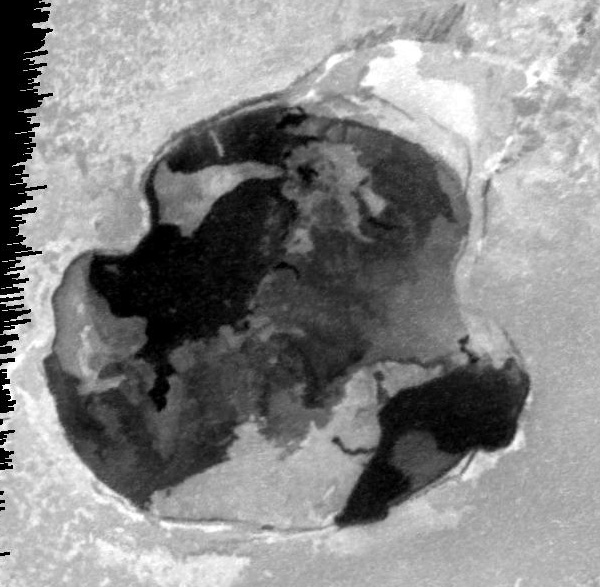 This image taken by NASA's Galileo spacecraft reveals fresh lava in a wide pit named Gish Bar Patera on Jupiter's moon Io. The patera, or depression, is quite large: 106.3 kilometers (66 miles) by 115.0 kilometers (71 miles). Galileo has detected volcanic activity at this site in the past, particularly in late 1996. Galileo took this image on Oct. 16, 2001, during its 32nd orbit of Jupiter. Effects of a new eruption at Gish Bar can be seen in a comparison with images from 1999 (see figure below). The new eruption was first detected in infrared imaging by Galileo's near-infrared mapping spectrometer in August 2001. This visible-light image shows a pair of new lava flows. The largest runs to the western boundary and extends to the central and northern portions of the patera. The other flow corresponds to a secondary depression in the southeastern portion of the patera. Based on changes seen at this depression between July and October 1999, this is thought to be the site of an outburst seen by Earth-based observers in August 1999. Gish Bar Patera lies at the base of an 11-kilometer (36,000-foot) mountain at 15.6 degrees north latitude, 89.1 degrees west longitude on Io. This image was taken from a distance of 25,000 kilometers (15,500 miles) and has a resolution of 250 meters (820 feet) per pixel. The Sun is straight behind the observer, an illumination angle that minimizes shadows and emphasizes inherent brightness variations rather than topography. The Jet Propulsion Laboratory, a division of the California Institute of Technology in Pasadena, manages the Galileo mission for NASA's Office of Space Science, Washington, D.C. Additional information about Galileo and its discoveries is available on the Galileo mission home page at Background information and educational context for the images can be found at